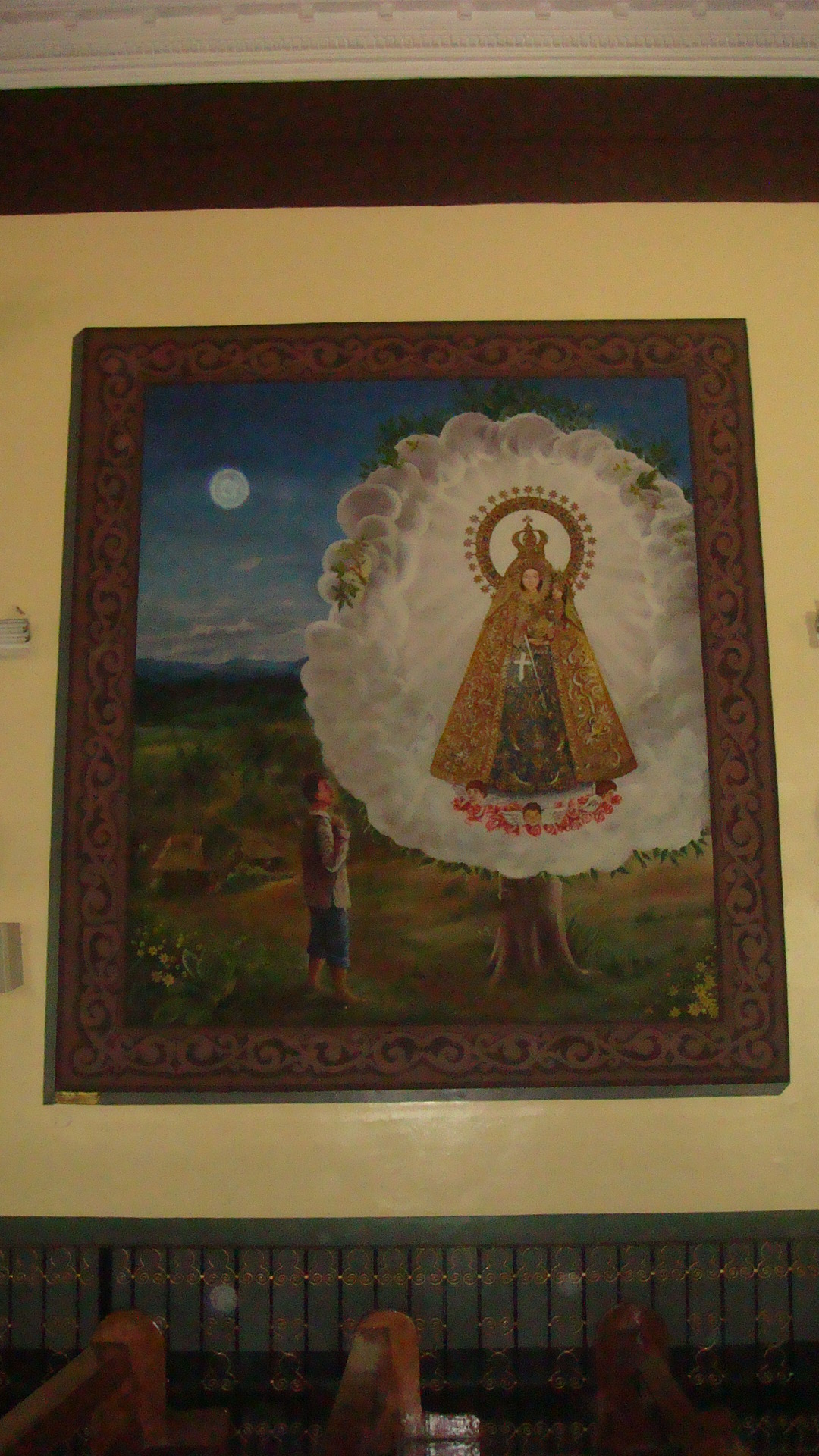 Painting at the side altar (Our Lady of the Rosary of Manaoag), Pangasinan, Philippines